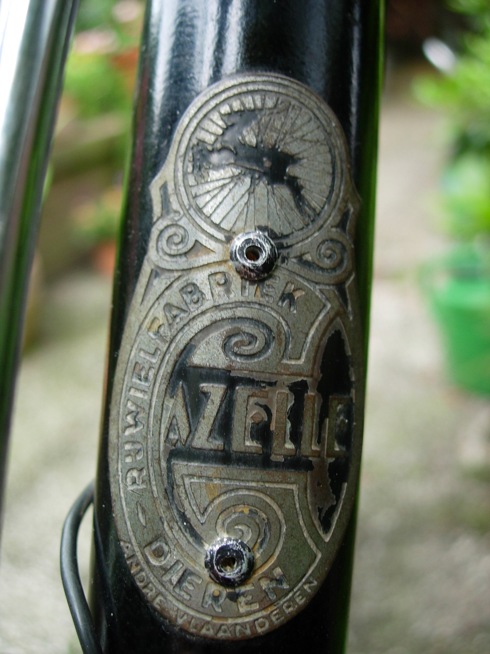 Gazelle vintage bicycle